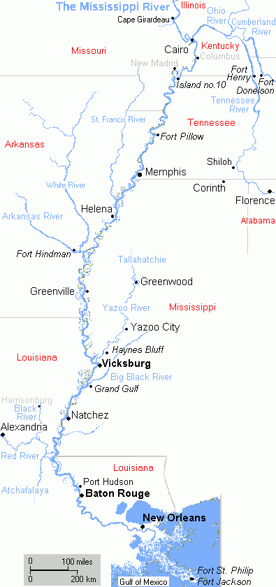 The Mississippi River and its tributaries with places connected with American Civil War. black: the names of cities and forts (in italics) red: state names blue: rivers gray: villages and small towns